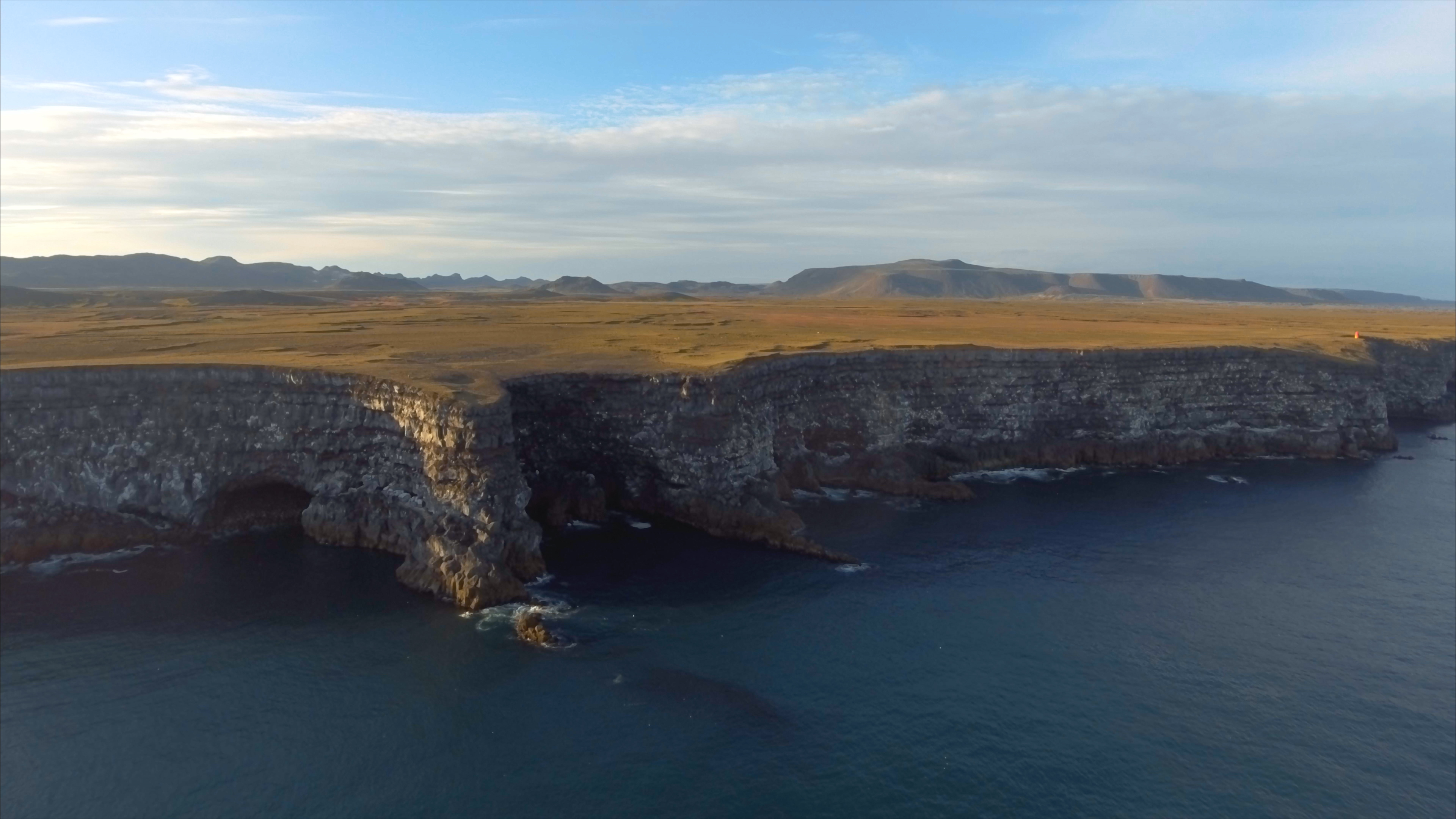 The cliffs Krýsuvíkurbjarg (or Krýsuvíkurberg) (Iceland)